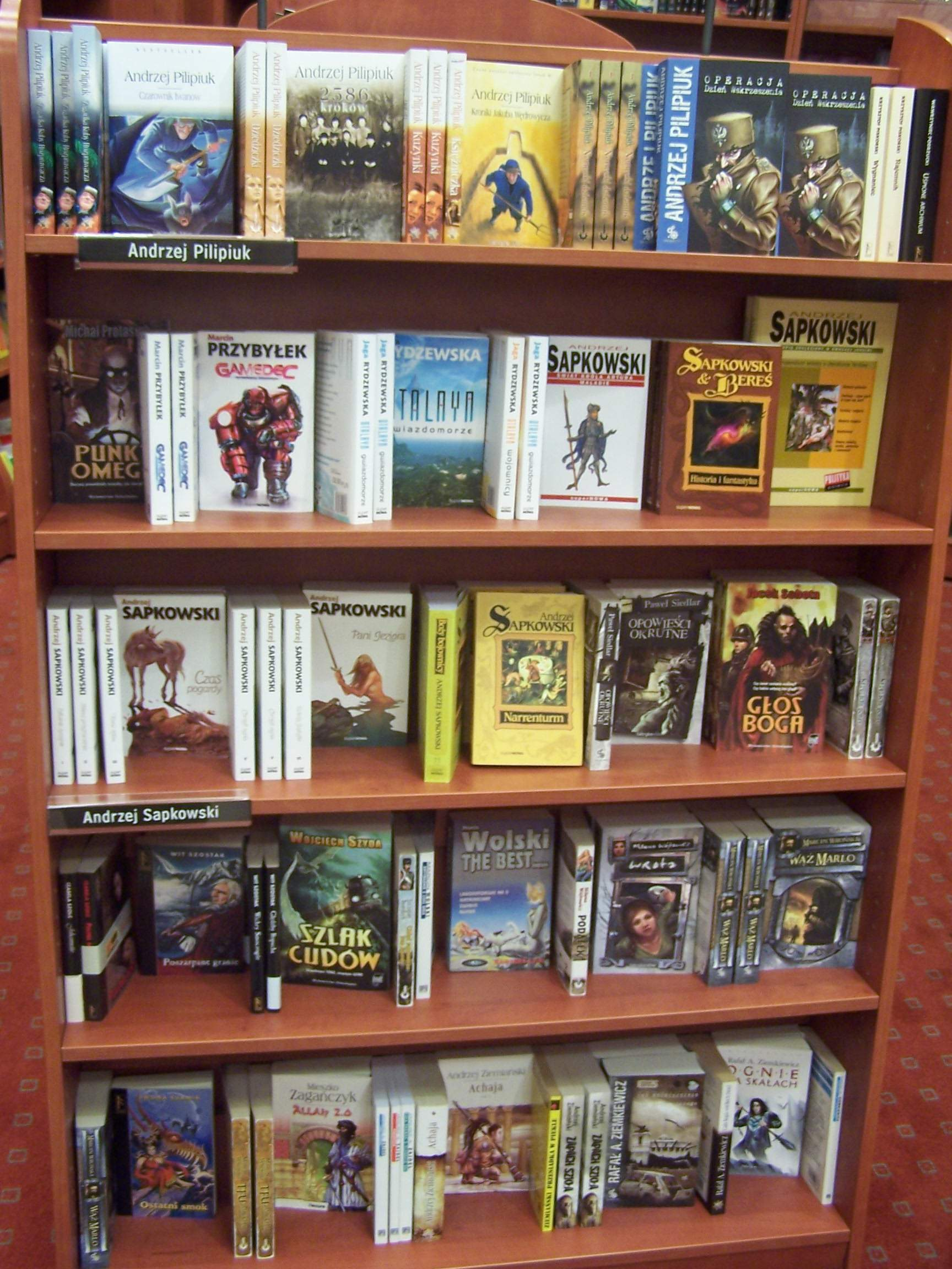 Shelves in a bookstore (Empik, Katowice), containing only new releases of science fiction and fantasy in Poland (approximately from first half of 2006). Letters P-Z. Virtually none of these books have been translated into English. books.